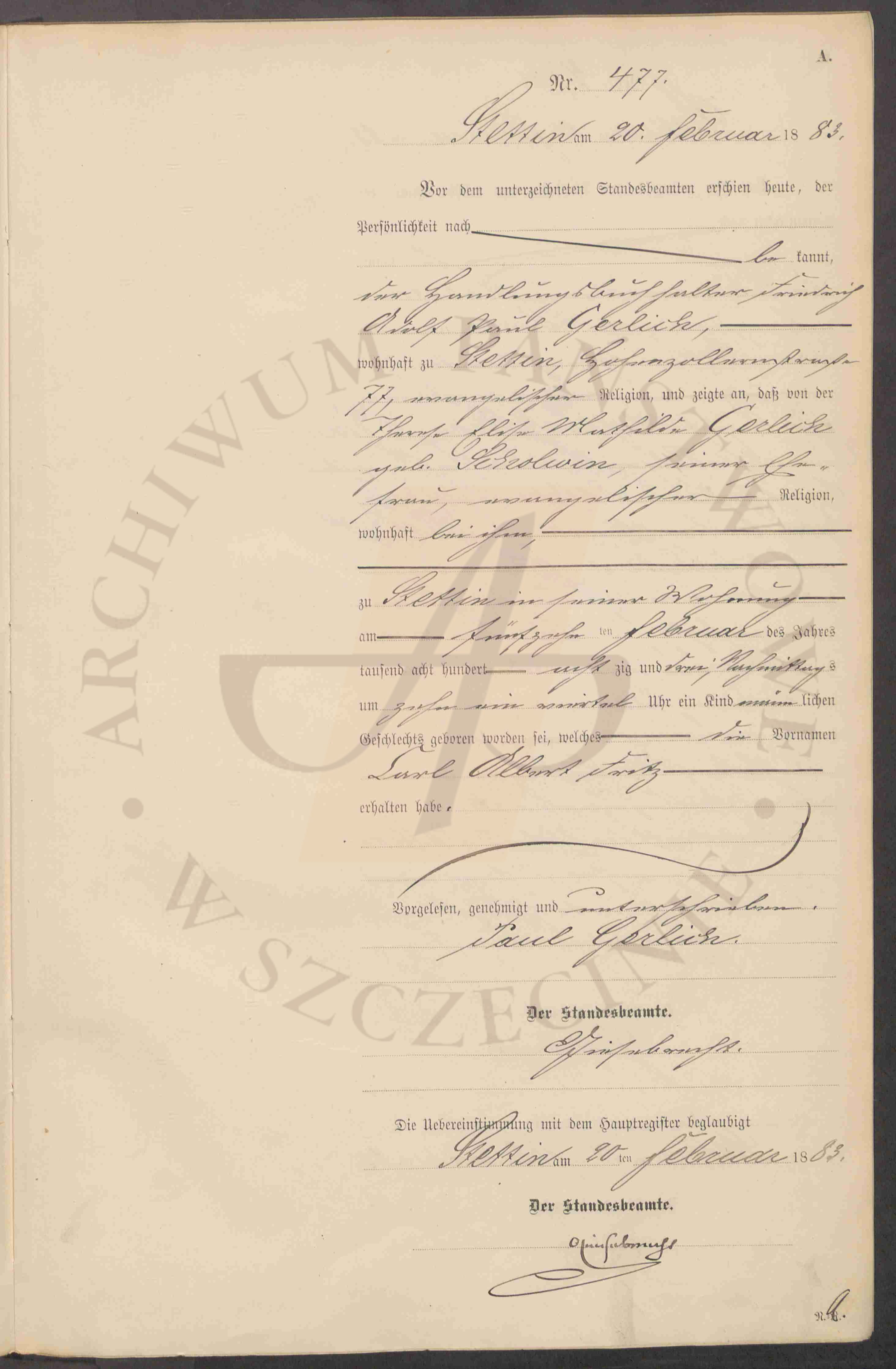 Birth Certificate of the archivist and journalist Fritz Gerlich (1883-1934), who was murdered by the SS in Dachau Concentration Camp in 1934